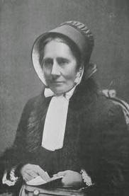 Eliza Wigham of Edinburgh died 1898